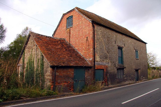 Venn Mill, Garford, Oxfordshire